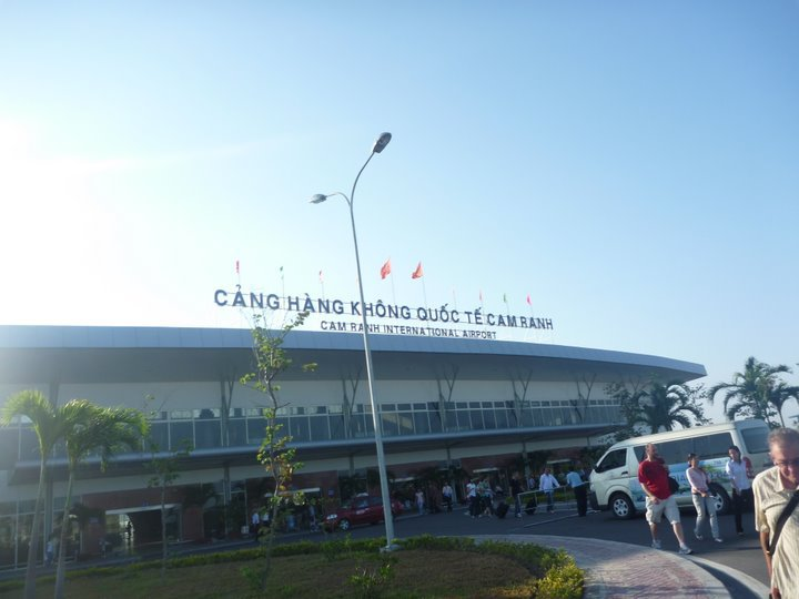 Cam ranh international airport